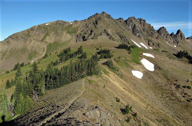 Ladies Peak seen from Ladies Pass